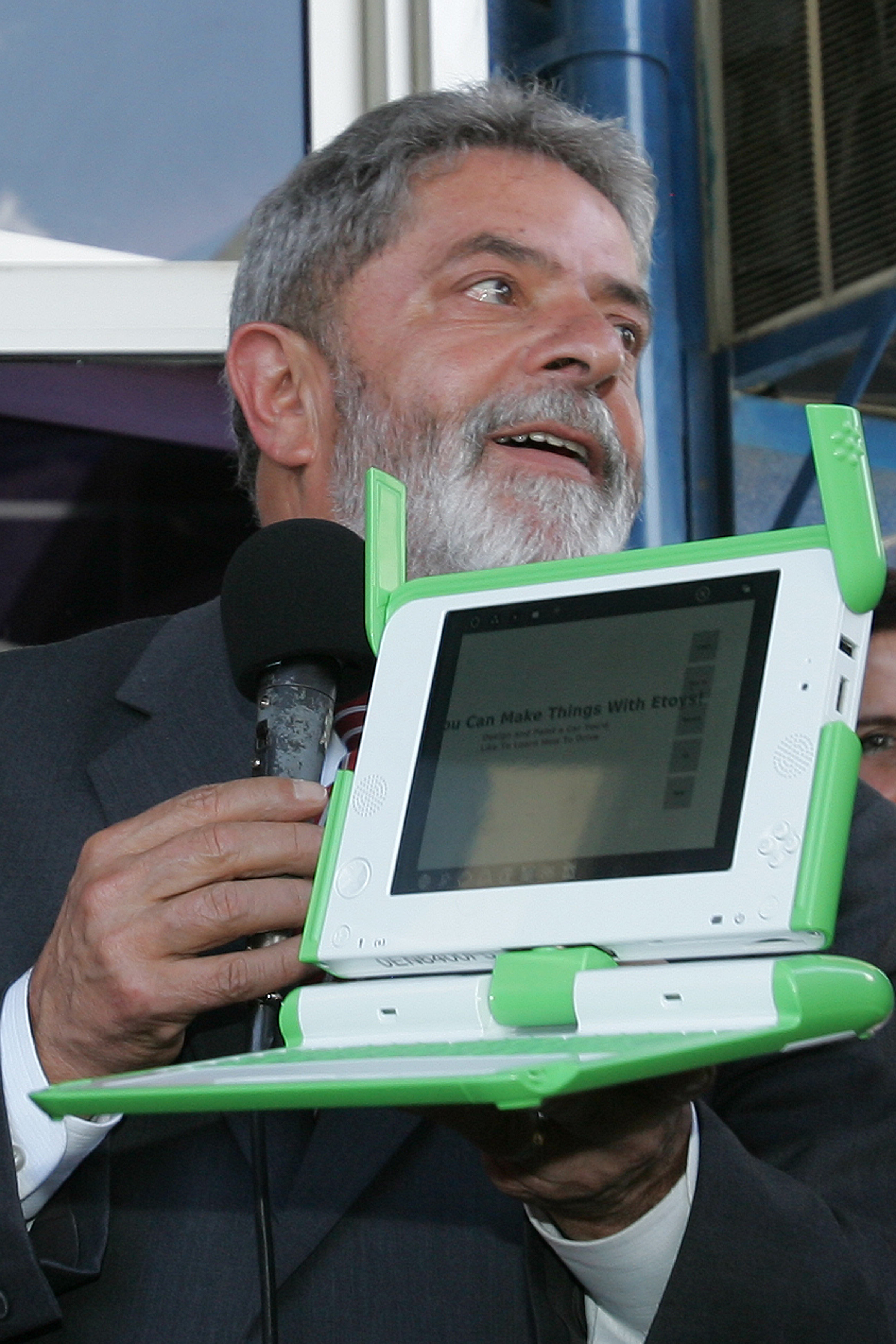 Lula, president of Brazil, and Children's Machine ($100 Laptop).